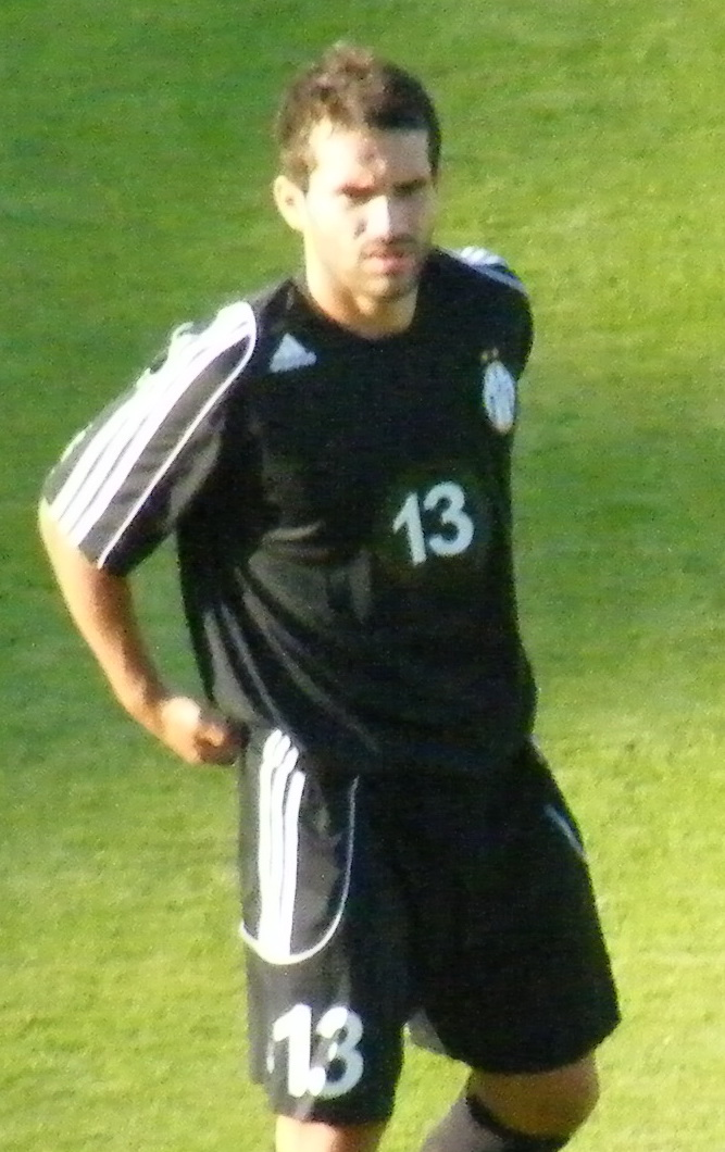 Erando Karabeci Albanian football player